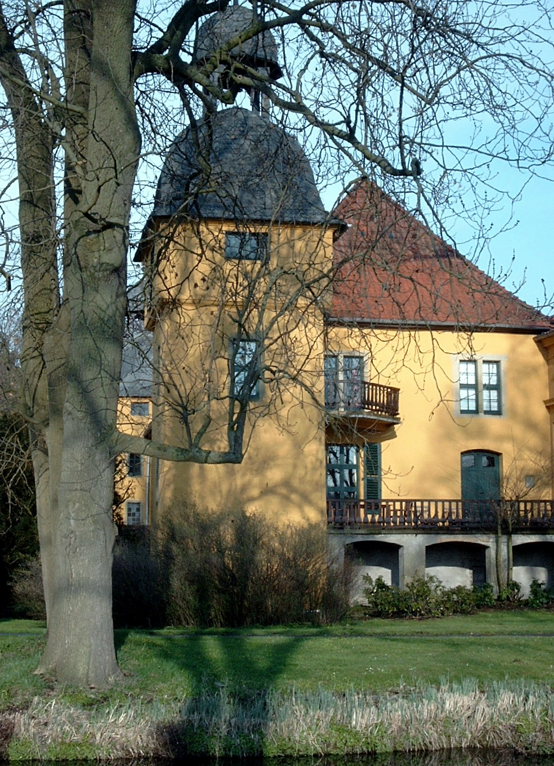 Böckel Castle in Rödinghausen, District of Herford, North Rhine-Westphalia, Germany.